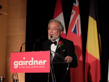 Yoshinori Ōsumi, Honorary Professor of Tokyo Institute of Technology, addressed at Gairdner Foundation International Award Ceremony at the Royal Ontario Museum in Toronto City, Ontario Province on October 29, 2015.